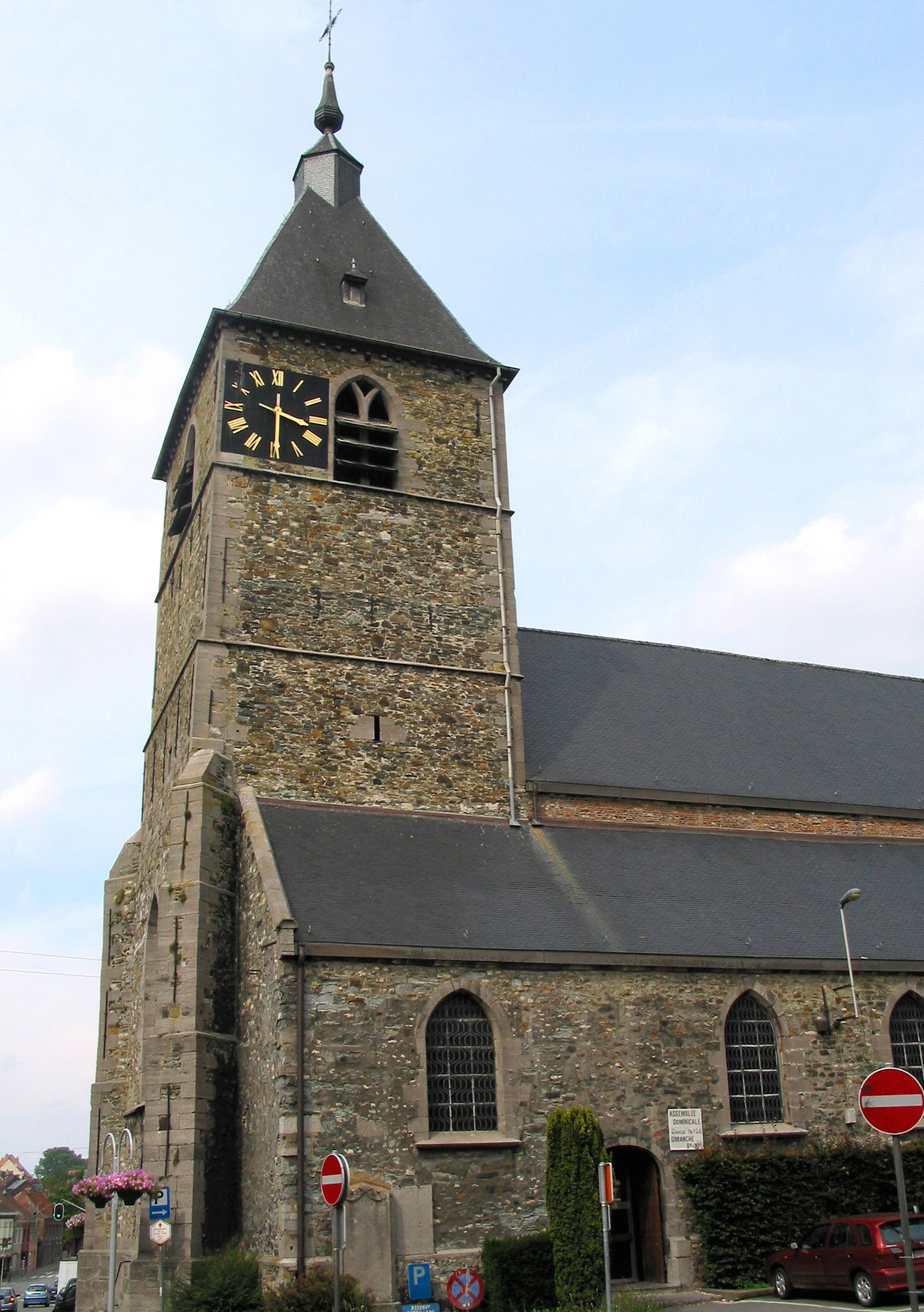 Tubize (Belgium), the Saint Gertrude church (bell tower - XIIIth century).